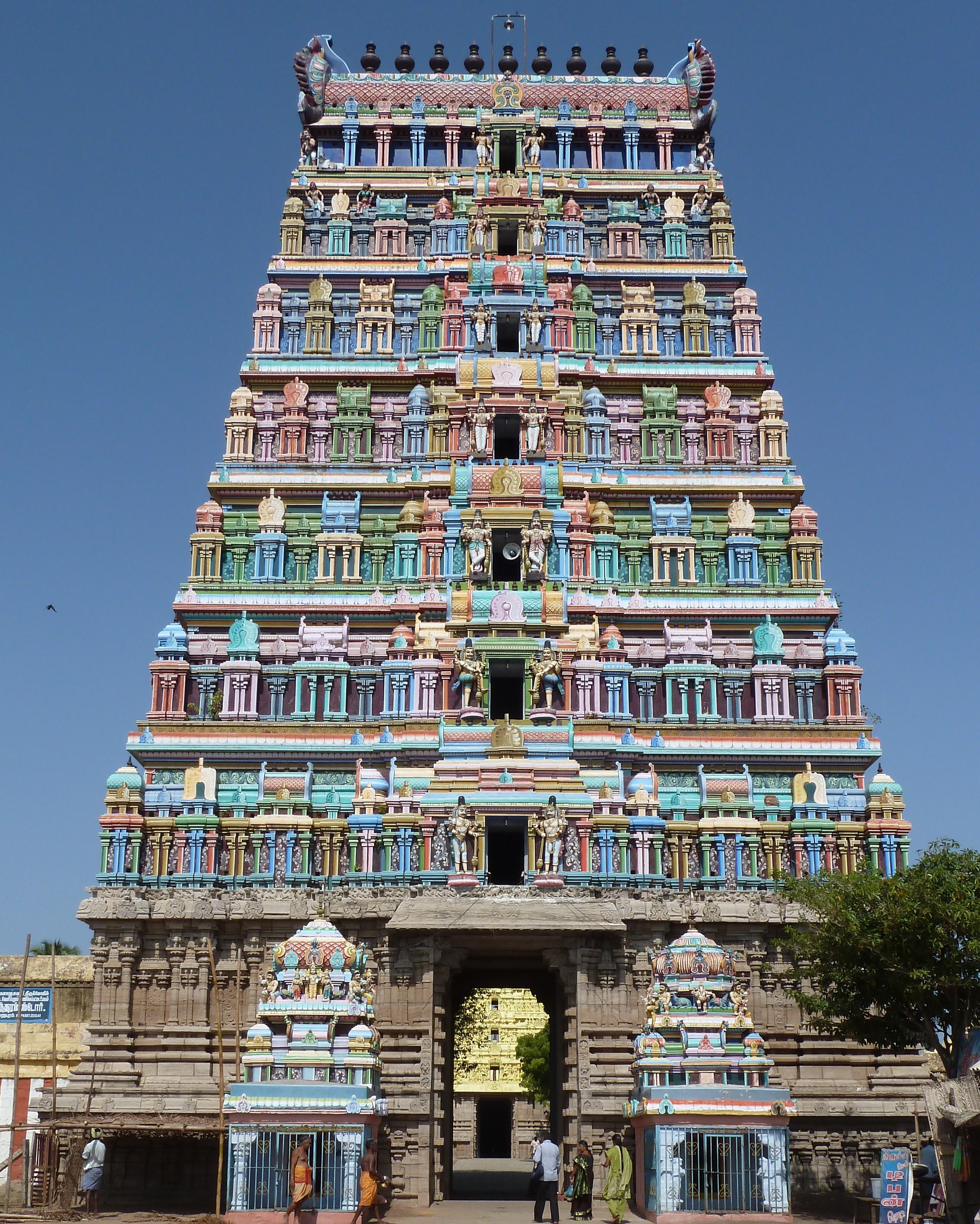 entrance of Uthirakosamangai temple vimhana